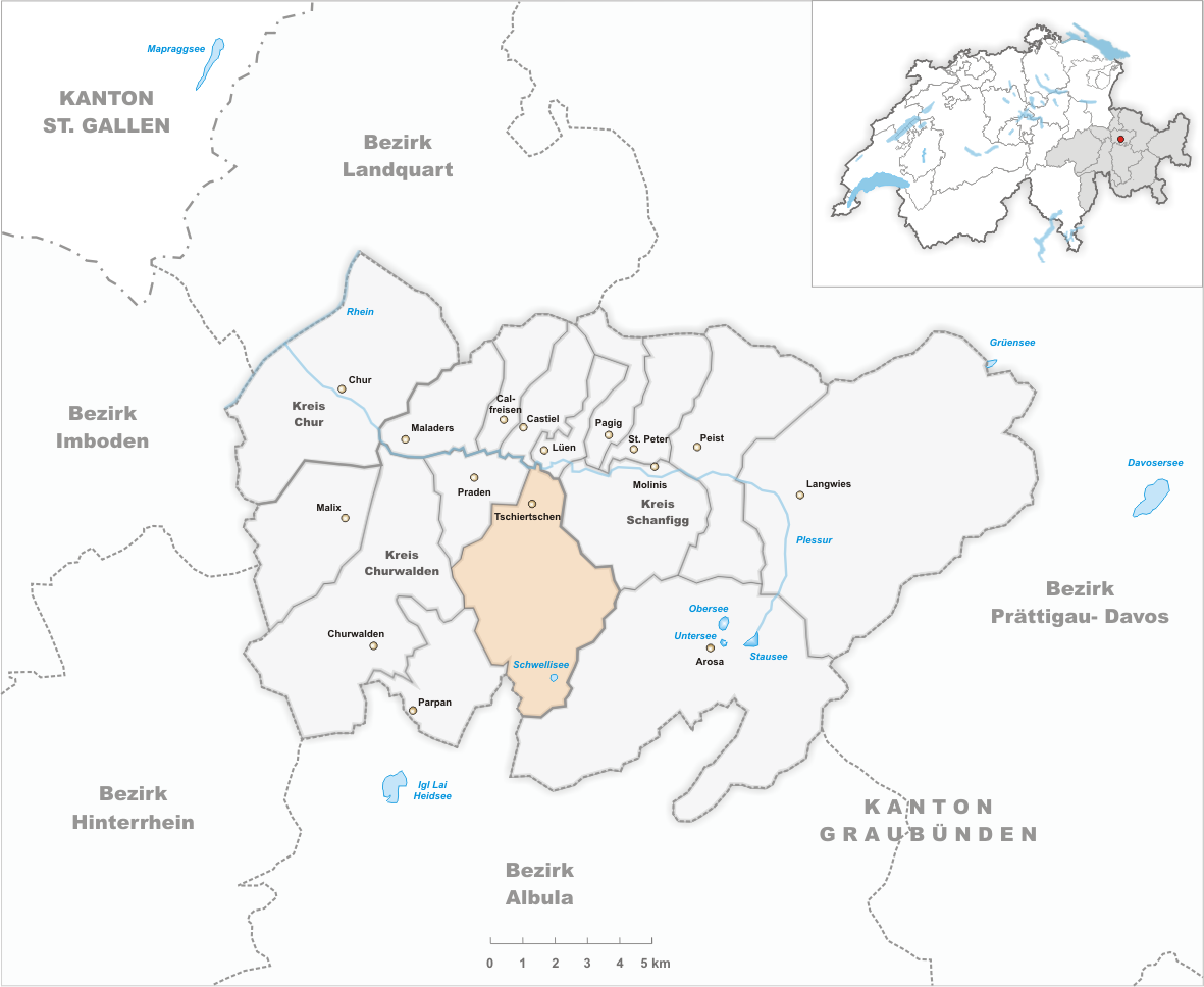 Municipality Tschiertschen